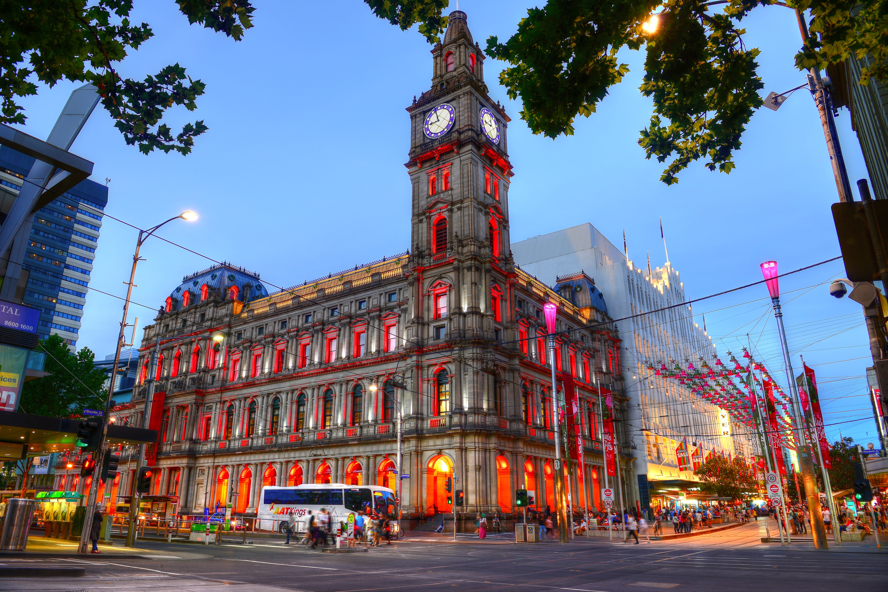 The Melbourne Government Post Office (GPO) which now functions as a boutique shopping mall, is located at the corner of Burke and Elizabeth st. Throughout the year, the building is illuminated with different colours; sometimes to reflect a particular theme or to raise awareness. In one week, I visited this same spot 3 times. The first time I was here, the building was illuminated with red and green lighting yet for the second and third visit on Christmas day, it was white instead of green. I actually prefer the white illumination.